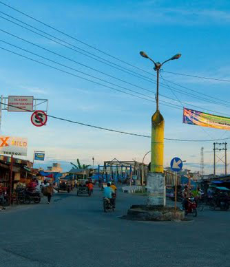 Foto Tugu Tanjungbalai